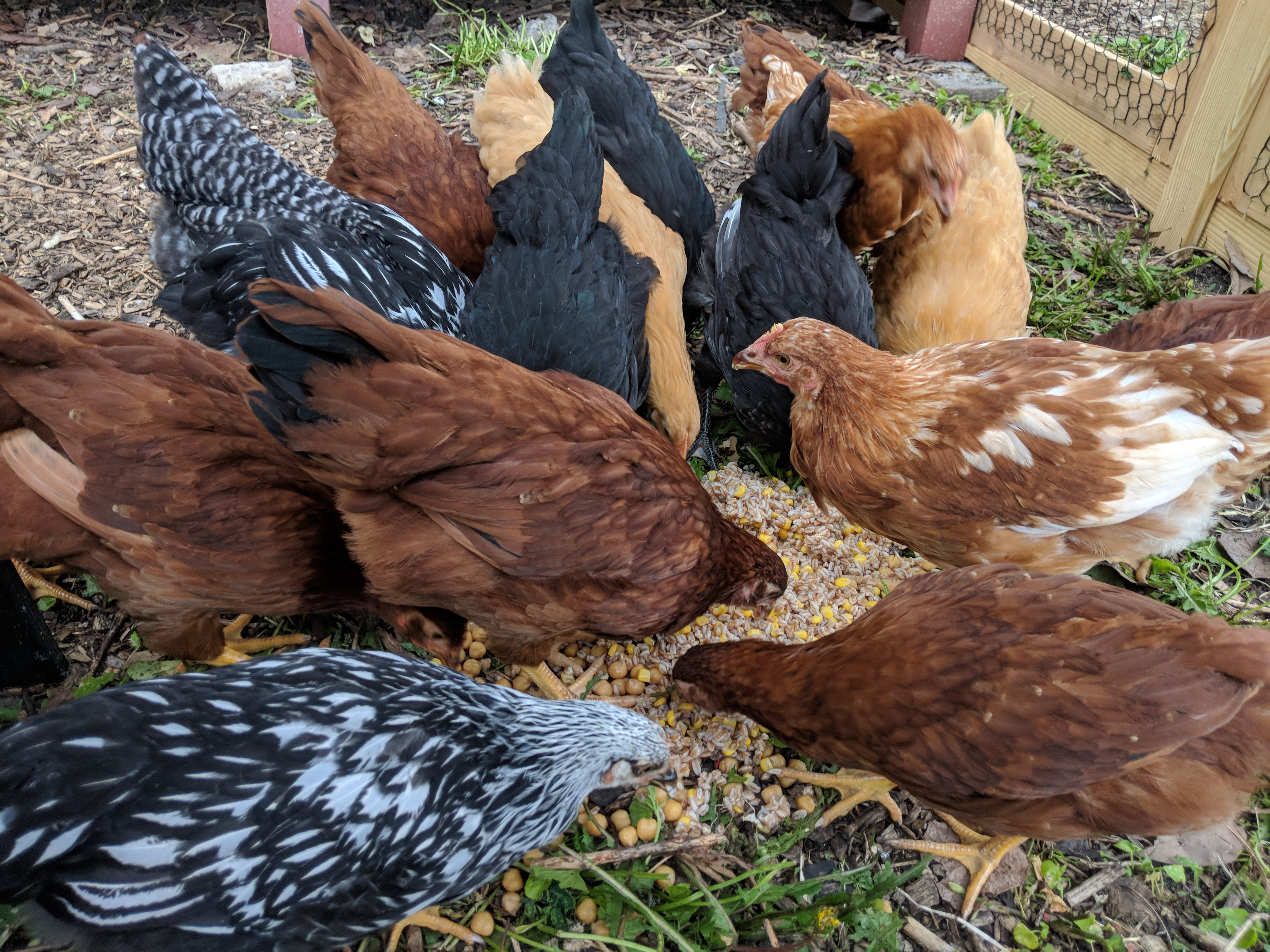 Backyard heritage chickens eating kitchen food waste. The reddish-brown chickens are Rhode Island Reds.